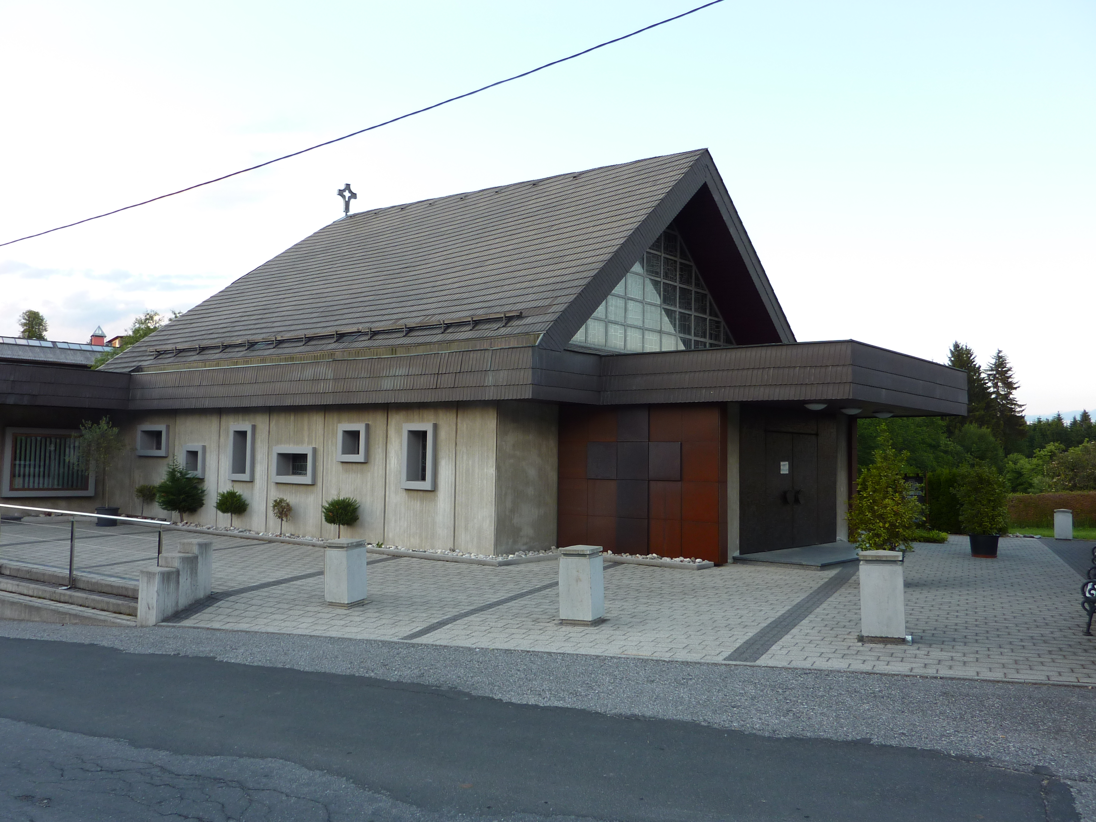 Church in Drobollach (Villach) in Carinthia